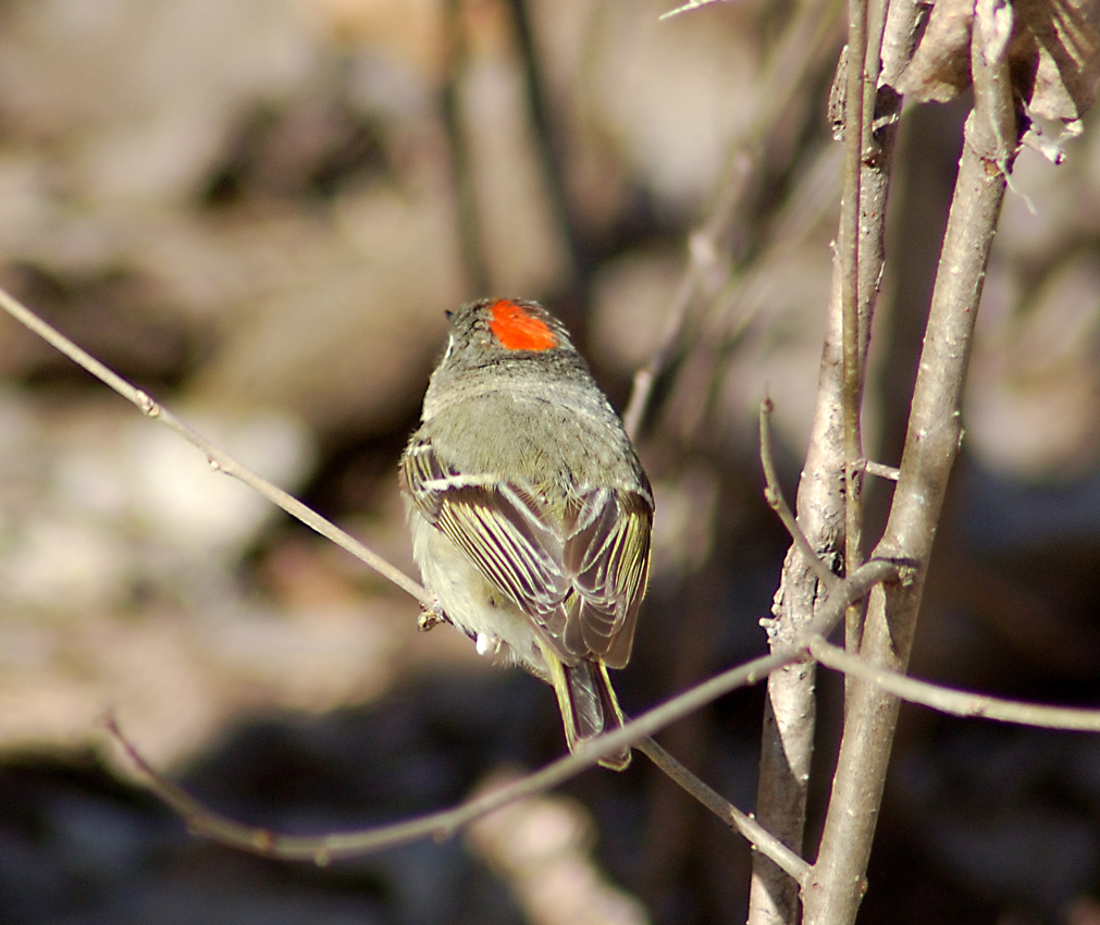 Regulus calendula